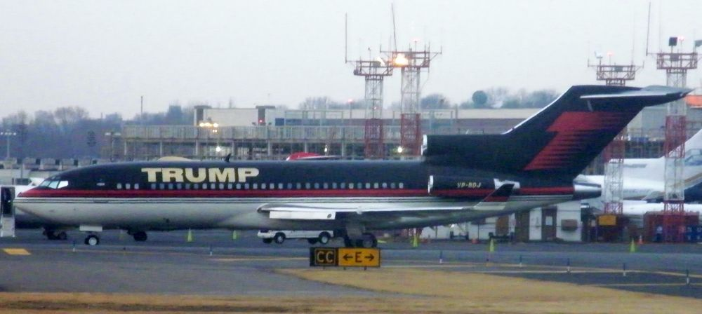 Donald Trump's personal 757 at Laguardia Aiport